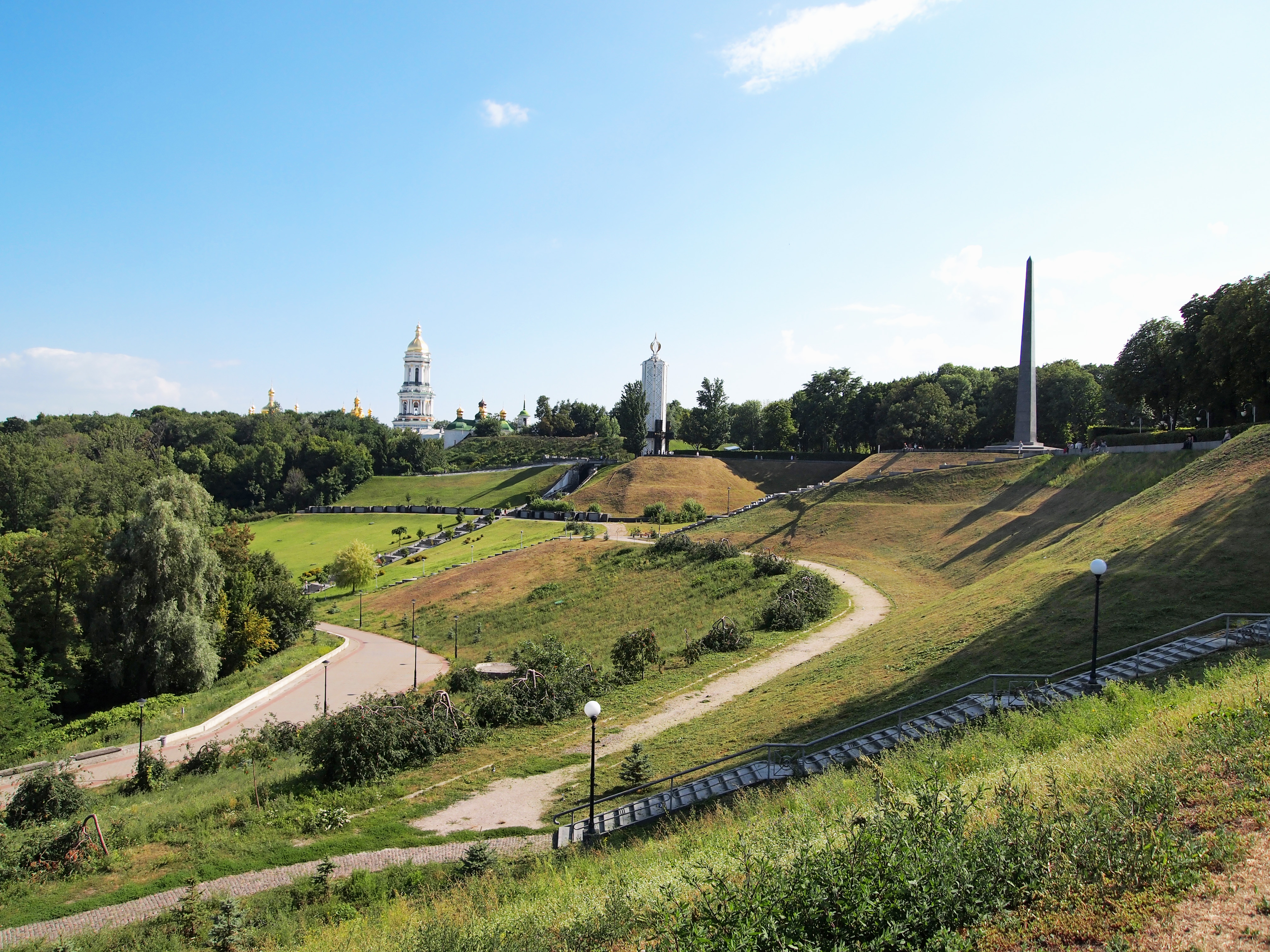 Monuments on Park of Eternal Glory in Kiev. This photograph was taken with a Olympus E-PL1.